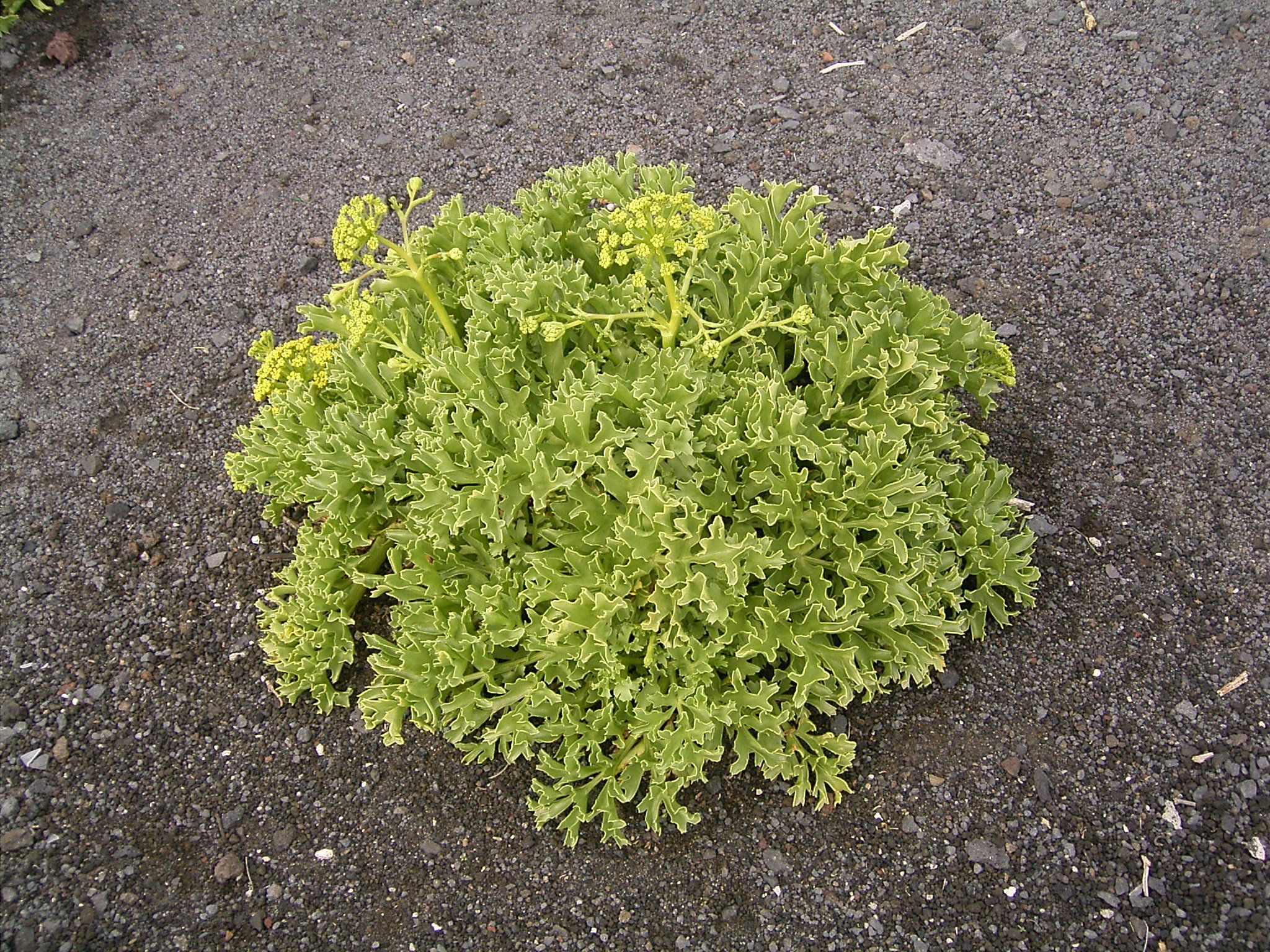 Astydamia latifolia growing in El Faro, Fuencaliente, La Palma, Canary Islands